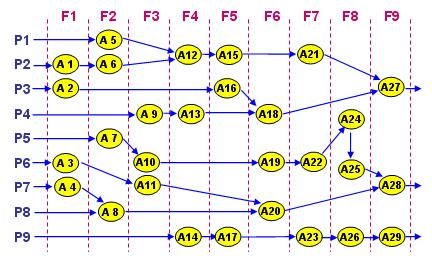 Business Functions and Business Processes